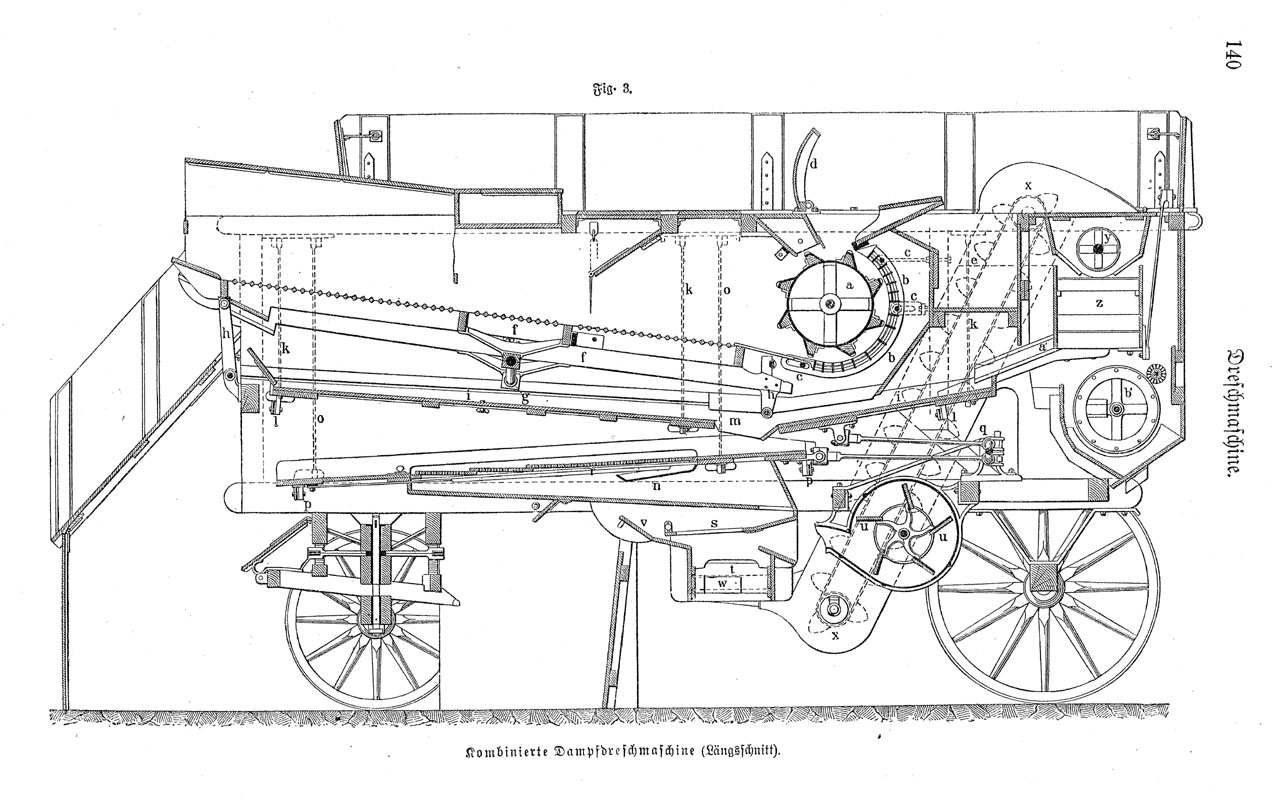 Combined steam powered treshing machine (longitudinal section).